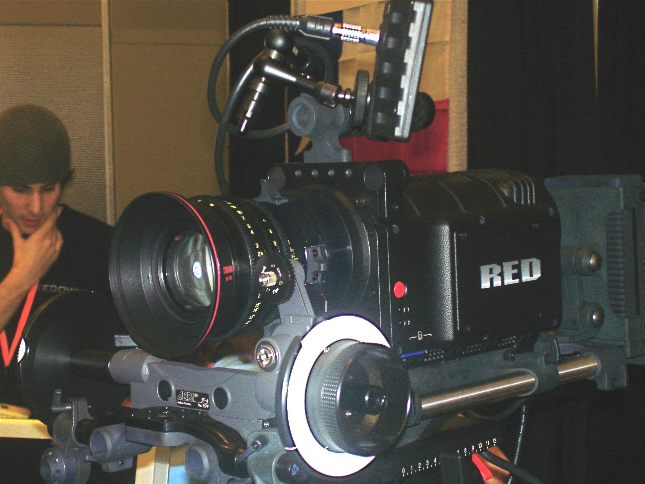 SXSW. Picture of Red One.